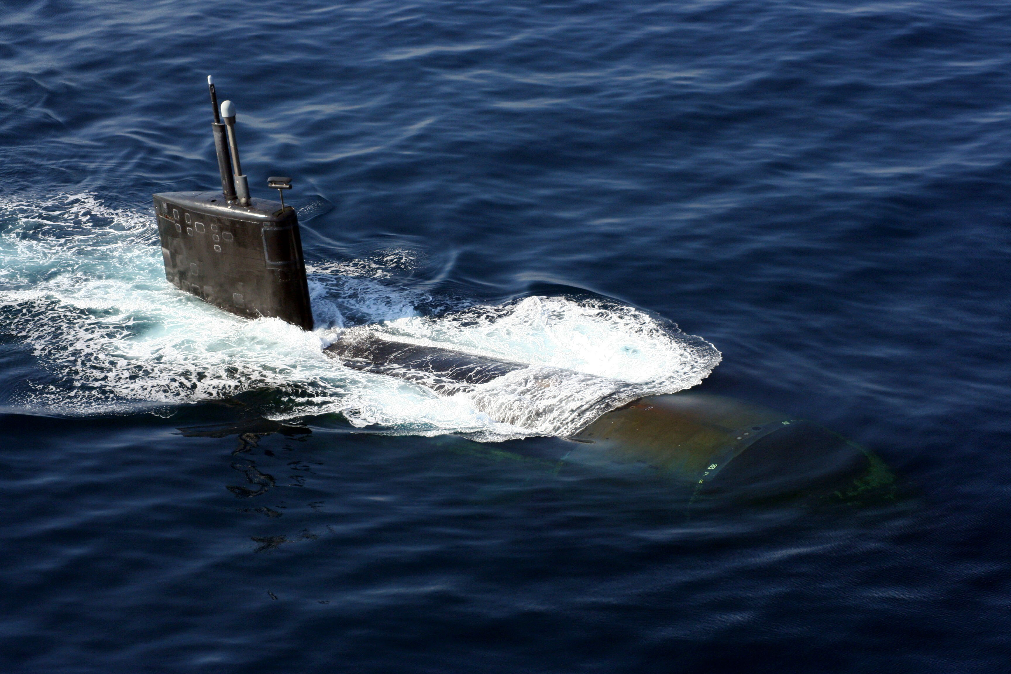 NORTH ARABIAN SEA (Nov. 11, 2007) The Los Angeles-class nuclear-powered fast-attack submarine USS Miami (SSN 755) surfaces in the North Arabian Sea during an anti-submarine warfare (ASW) exercise with the Enterprise Carrier Strike Group. The three-day, multi-unit exercise is aimed at enhancing the strike group's ASW capabilities. Miami is underway on a scheduled deployment as part of the Kearsarge Expeditionary Strike Group. U.S. Navy photo by Lt. Scott Miller (RELEASED)